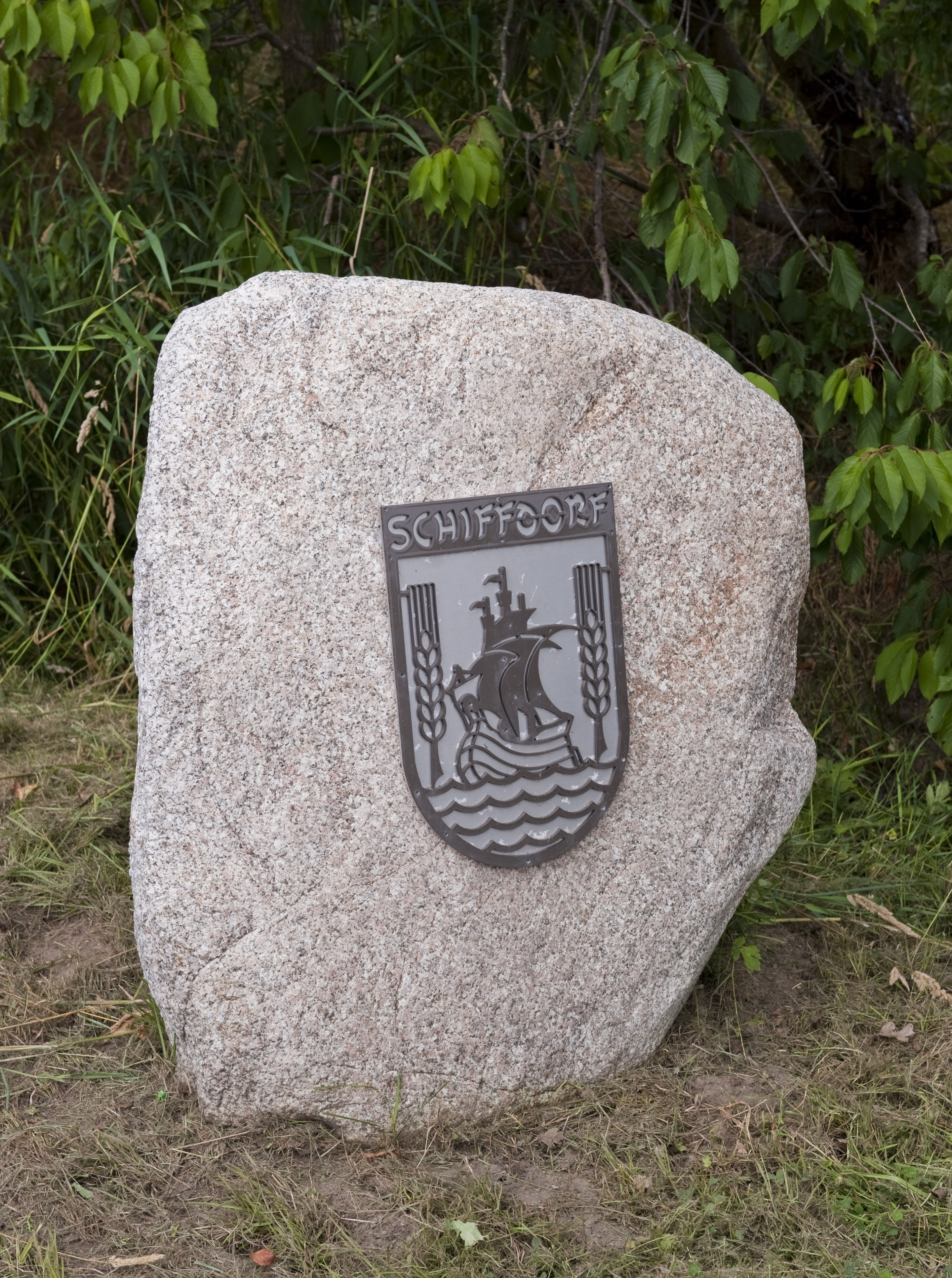 Erratic from Elbe-Weser area, SE of Bremerhaven, Northern Germany